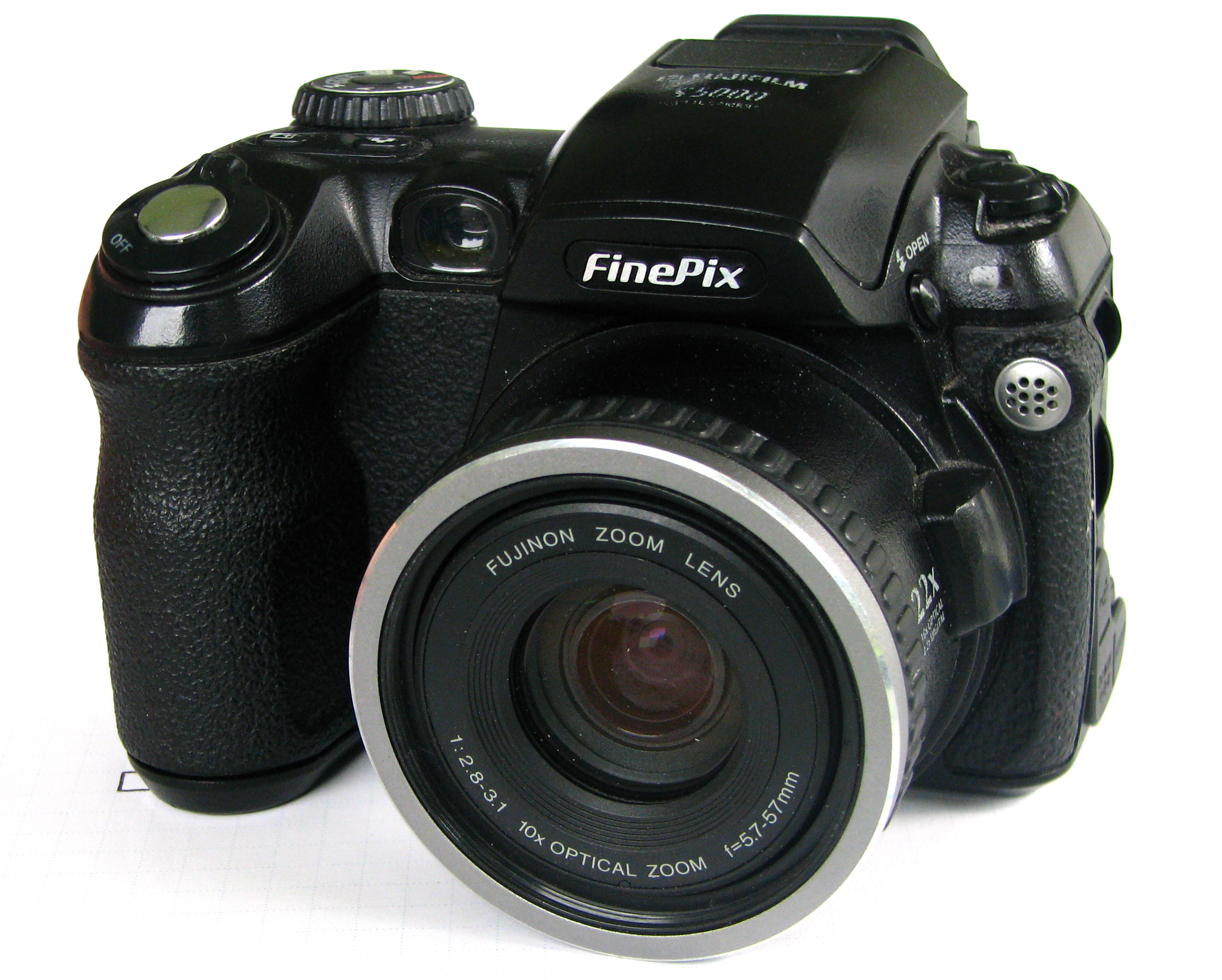 Digital camera Fujifilm_FinePix_S5000 .